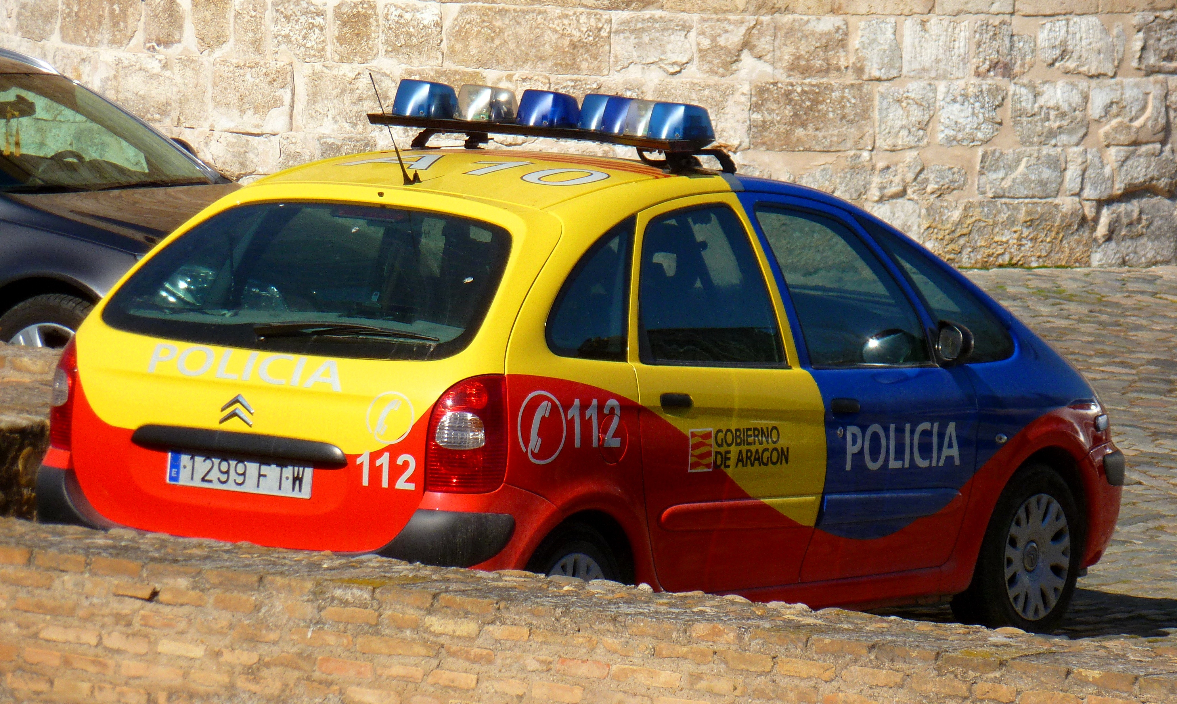 Citroën Xsara Picasso of the Unit of the Spanish National Police allocated to the Government of Aragon.